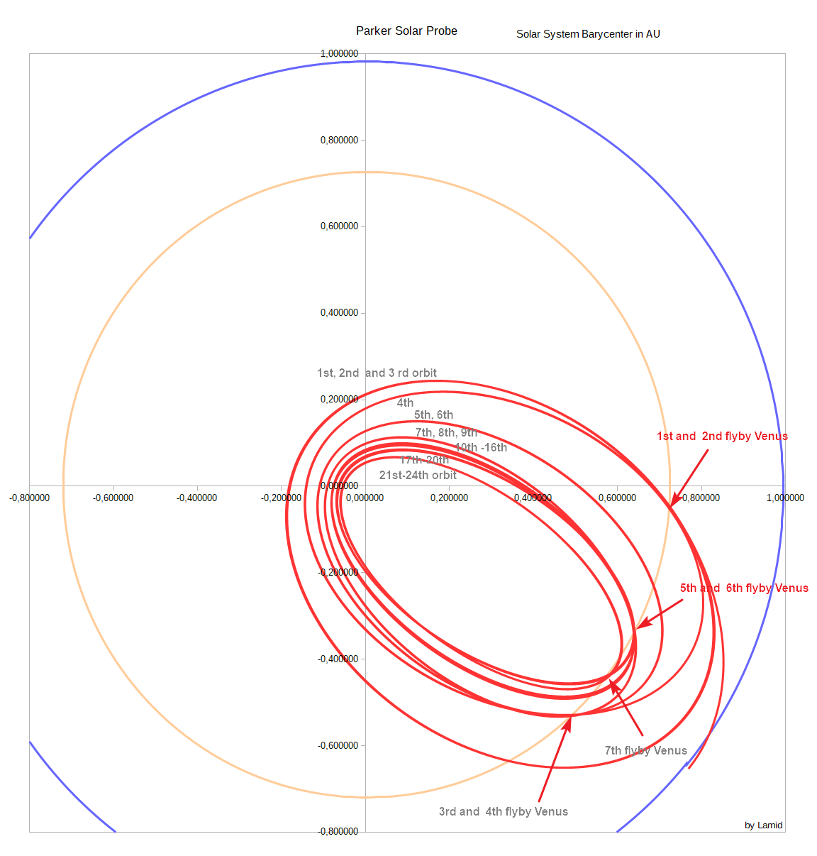 PSP trajectory in SSB coordinates